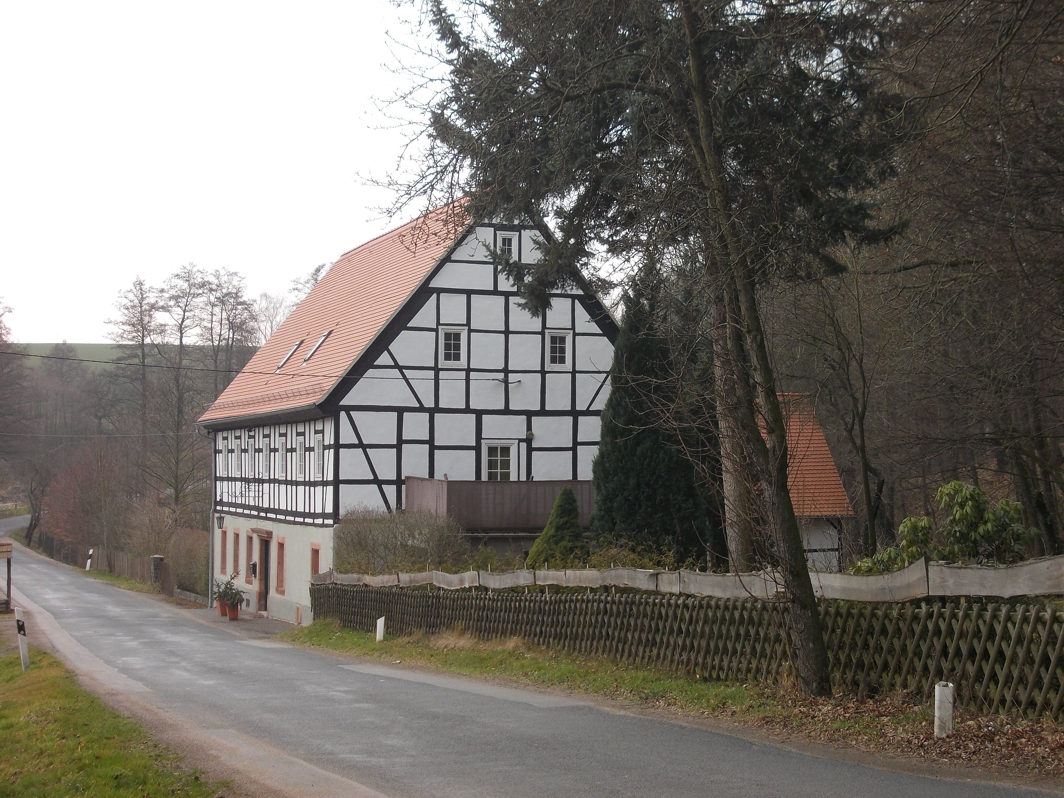 Lochmühle between Eckersberg and Kohren-Sahlis (Leipzig district, Saxony)